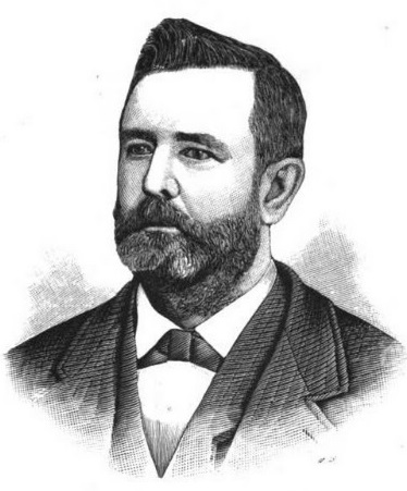 James Nelson Pidcock, New Jersey Congressman.